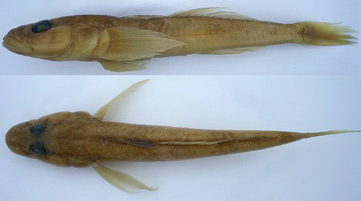 Caspian toad goby (Mesogobius nonultimus) from the Caspian Sea near Bandar-e Anzali, Iran